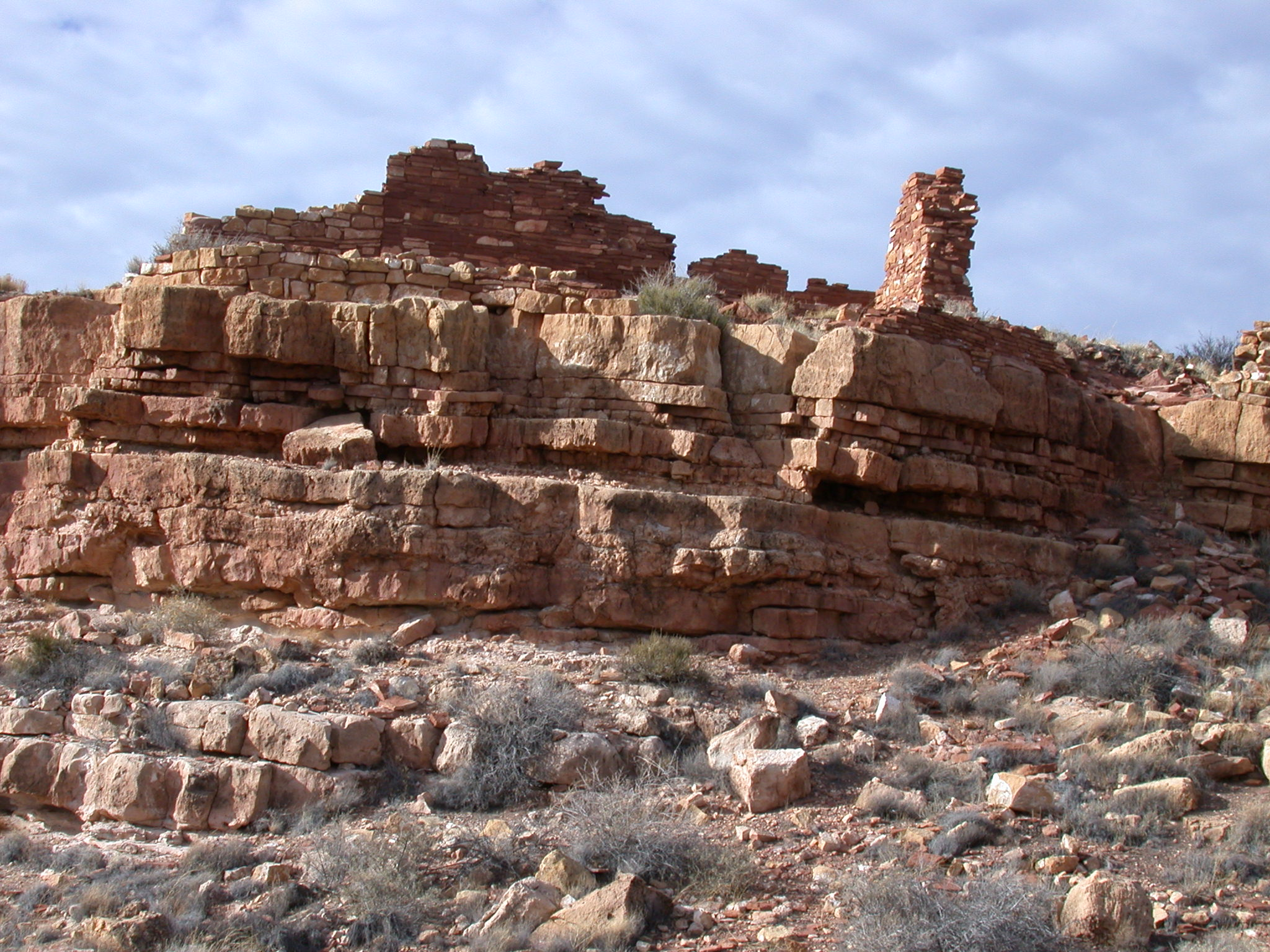 Citadel Ruin in Wupatki National Monument, Arizona overlooks a small canyon.